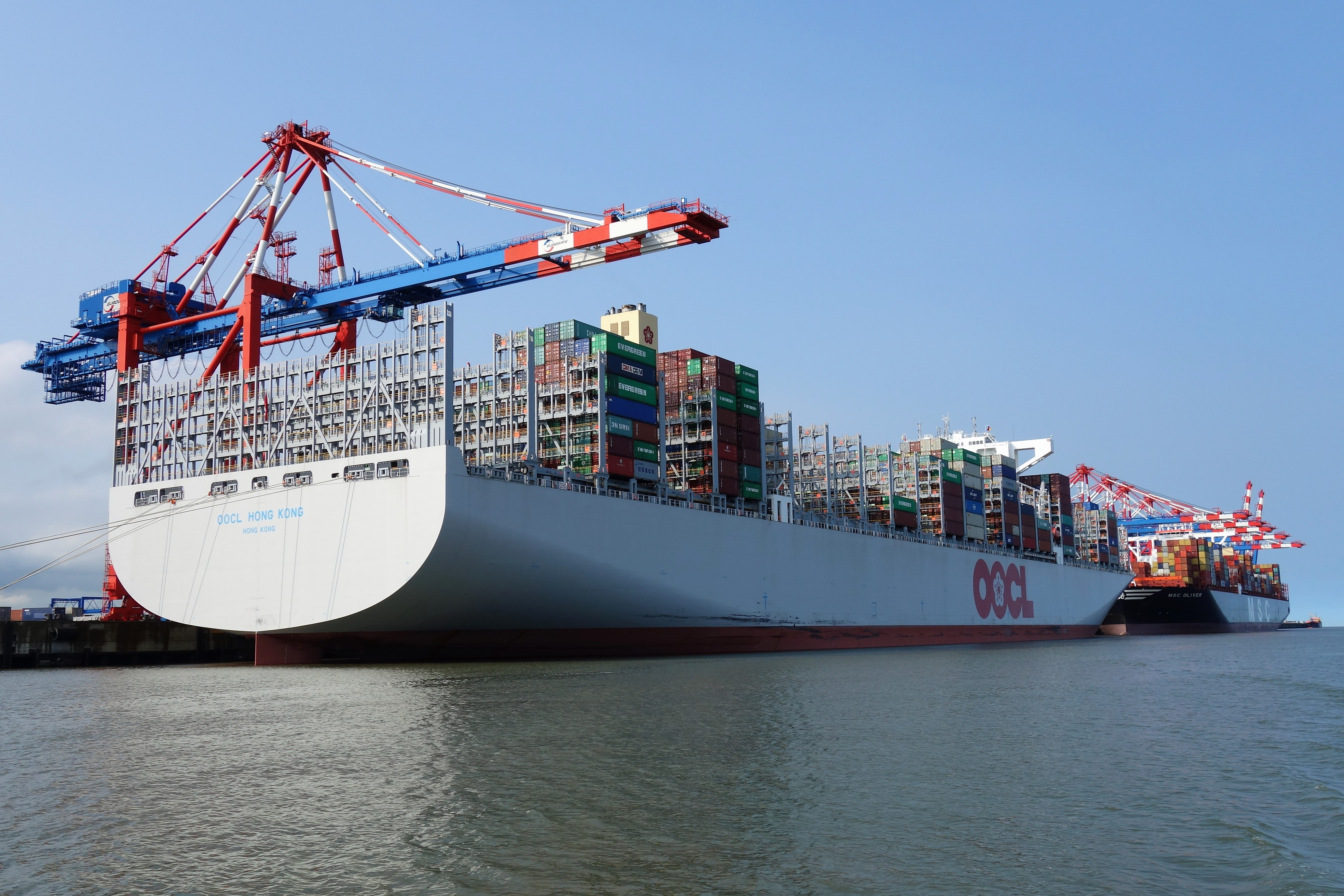 OOCL Hong Kong and MSC Oliver (black hull) at the JadeWeserPort, also known as Container Terminal Wilhelmshaven (CTW)